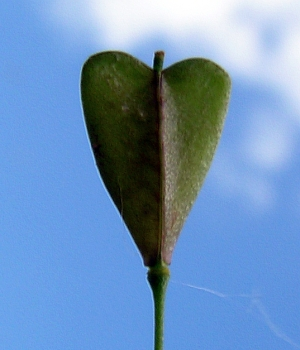 The fruit of Capsella bursa-pastoris. Moscow region, Russia.